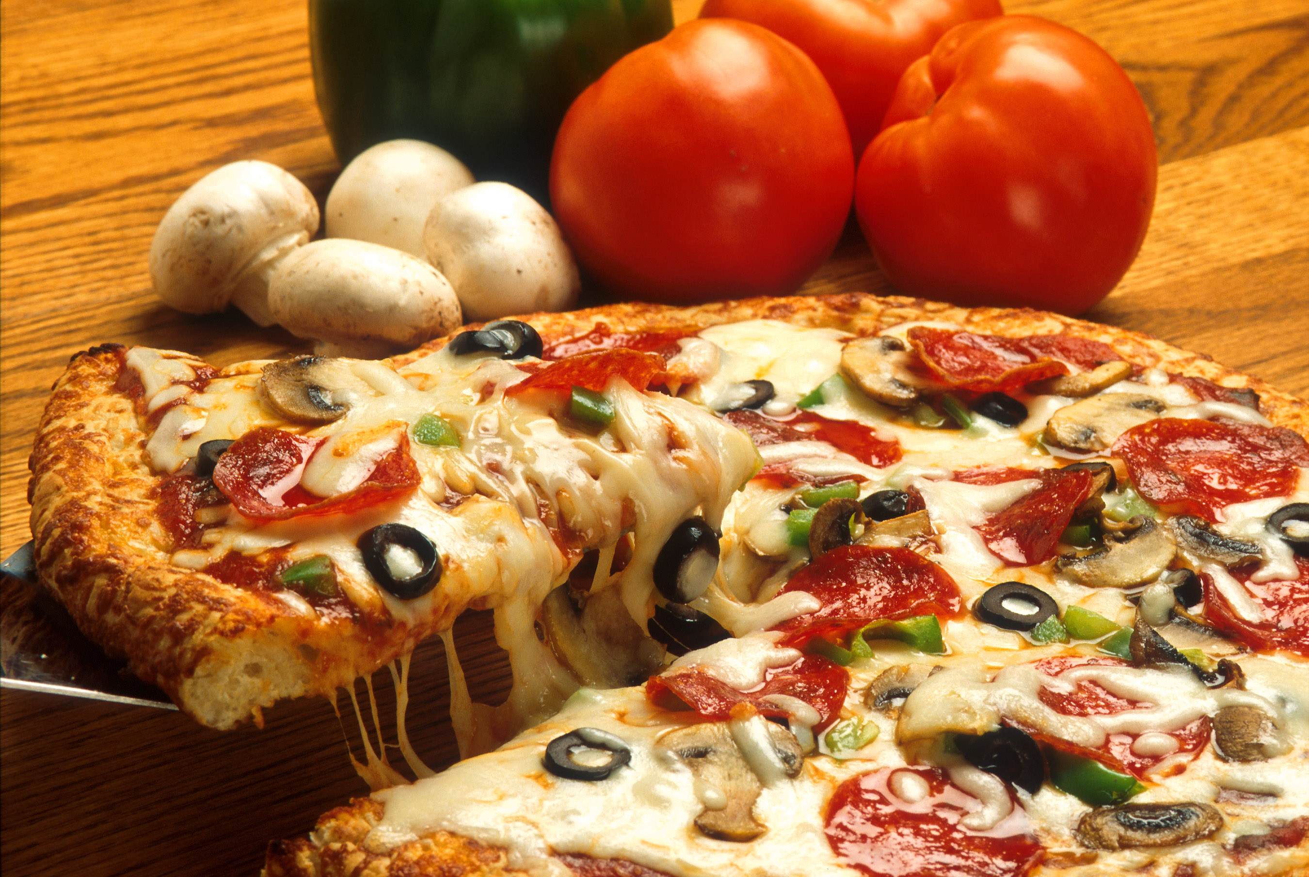 A supreme pizza with tomato sauce, cheese, pepperoni, peppers, olives, and mushrooms. melted cheese is typically stretched into hanging threads